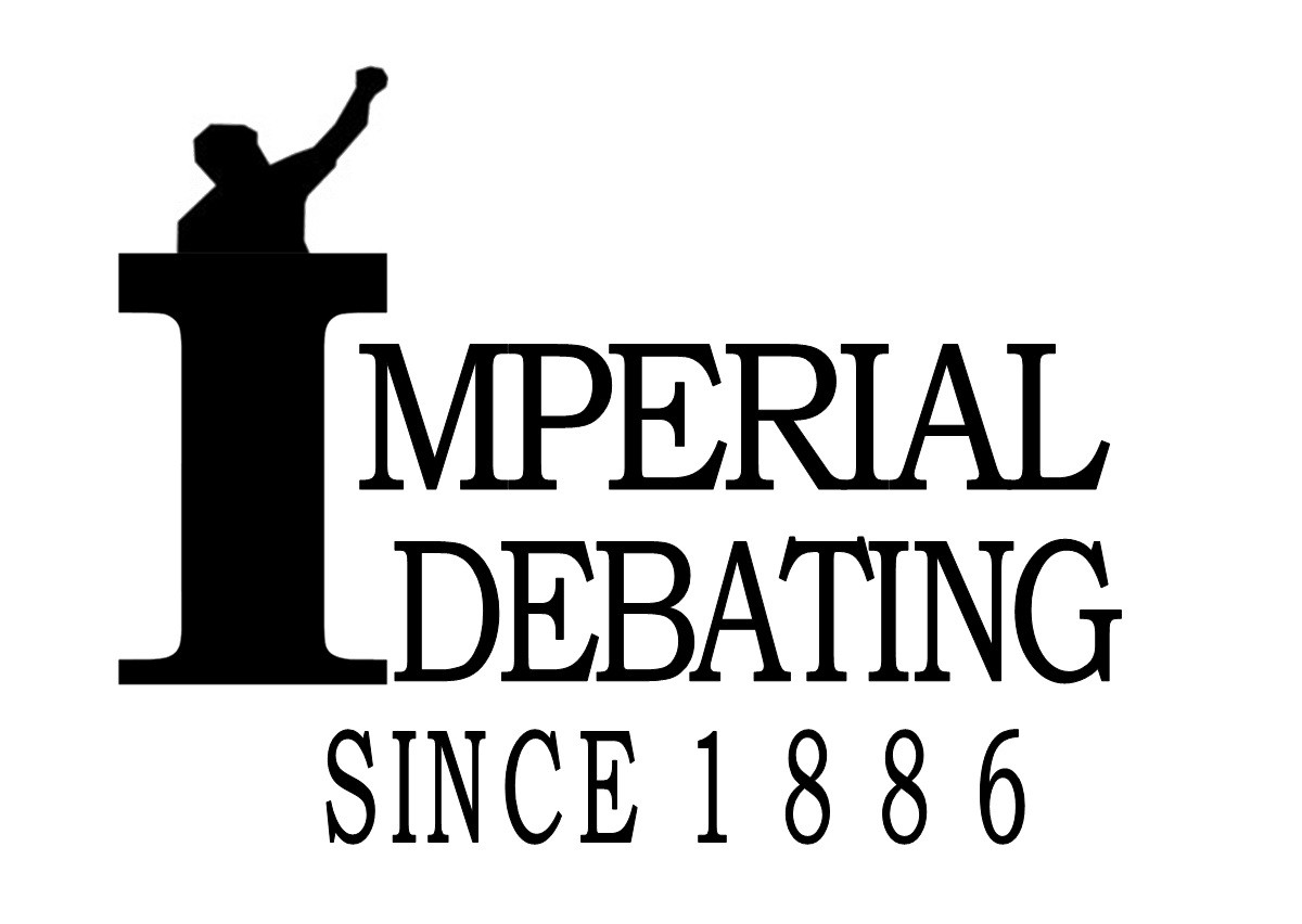 Logo of the Imperial College Union Debating Society